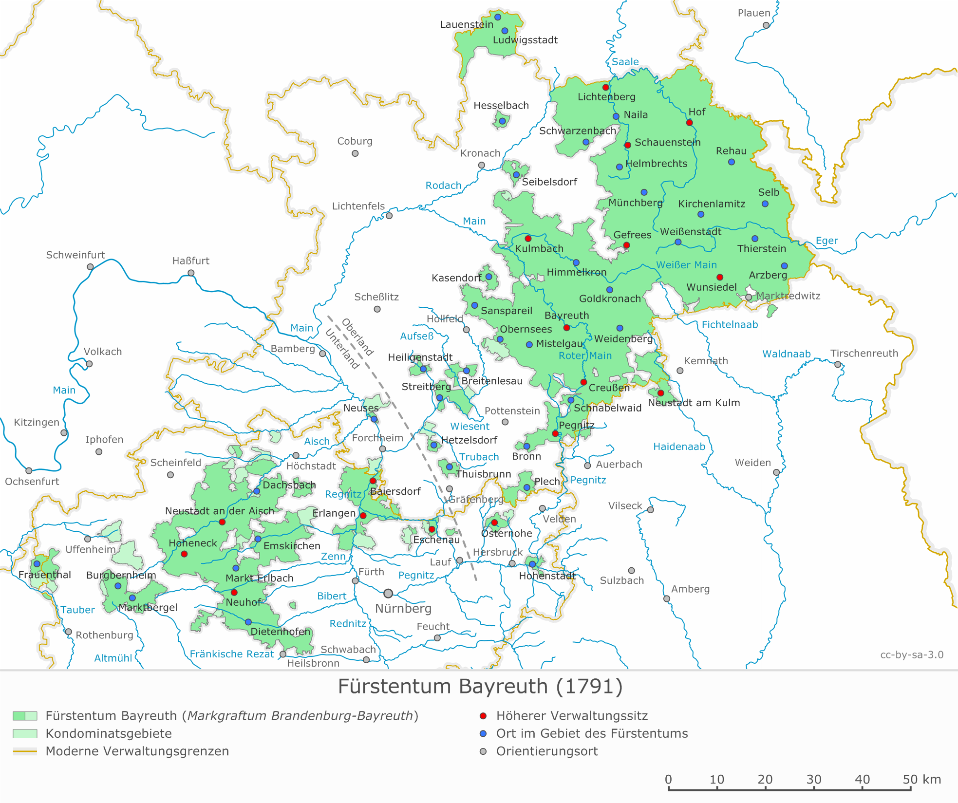 Principality of Bayreuth